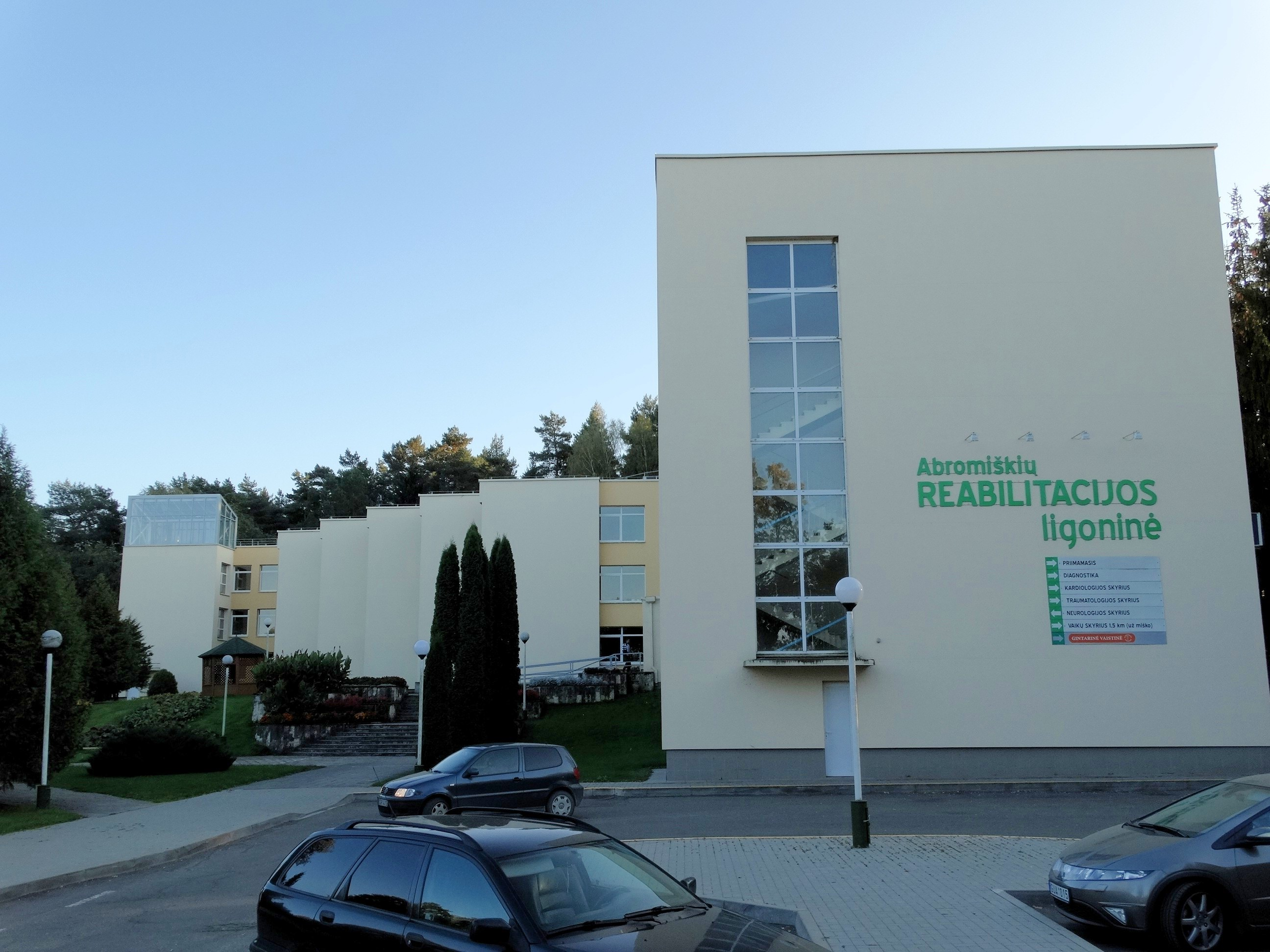 Rehabilitation hospital, Abromiškės, Elektrėnai Municipality, Lithuania